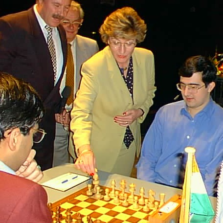 Burgomaster Marianne Wendzinski opens with Nf3 the game Vladimir Kramnik- Viswanathan Anand.